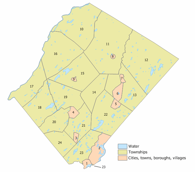 Locator map of places in Sussex County, New Jersey. See also lineage of index maps.